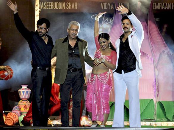 Emraan Hashmi, Naseeruddin Shah, Vidya Balan, Tusshar Kapoor at The Dirty Picture audio release